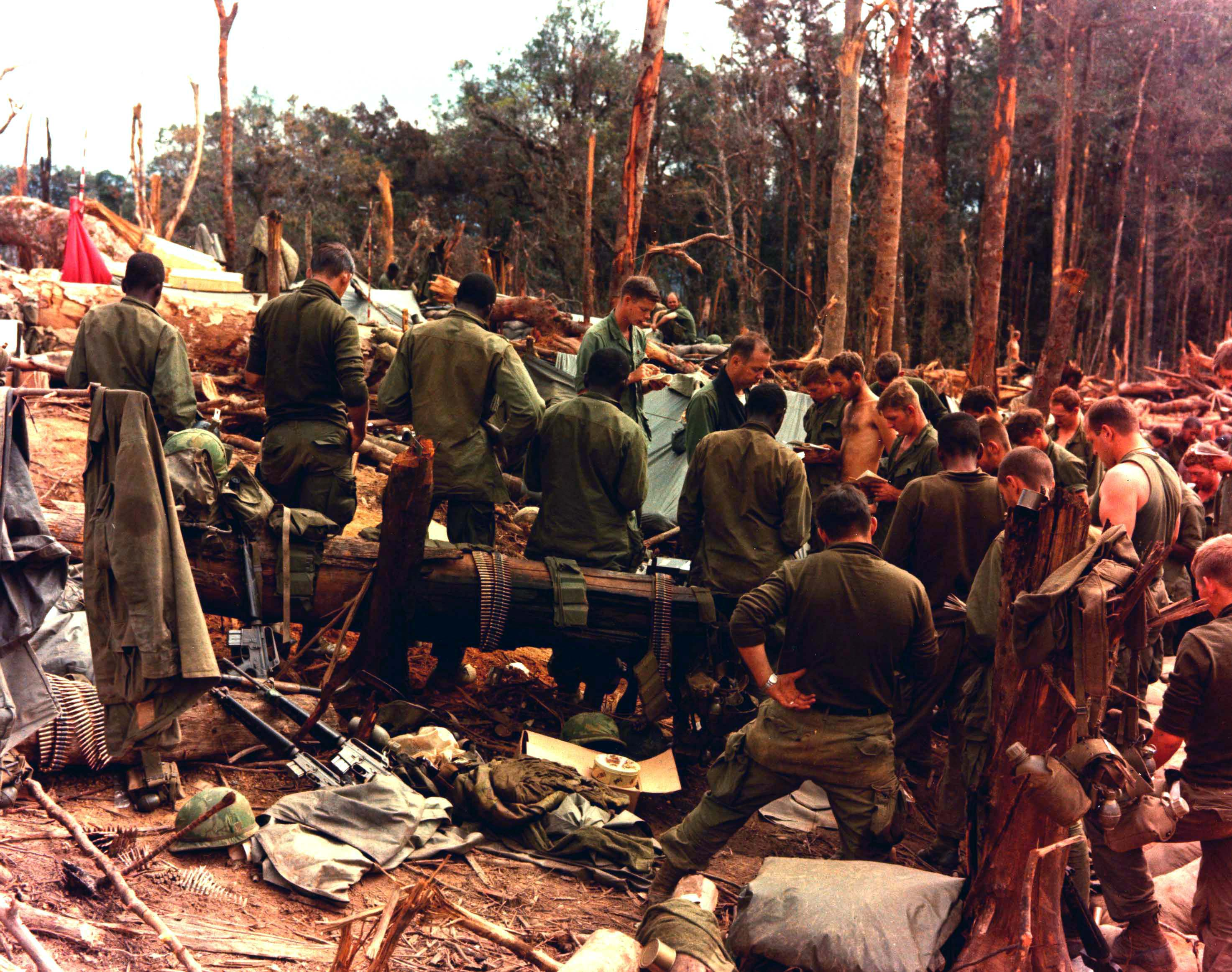 Members of the 3rd Battalion, 8th Infantry, 4th Infantry Division, prepare to sing a hymn during church services during Operation MacArthur.